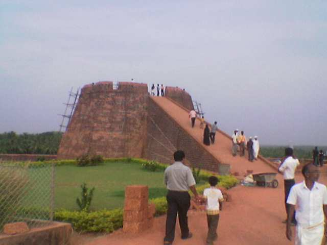 A picture of the most acclaimed landmark in the Bekal Fort.